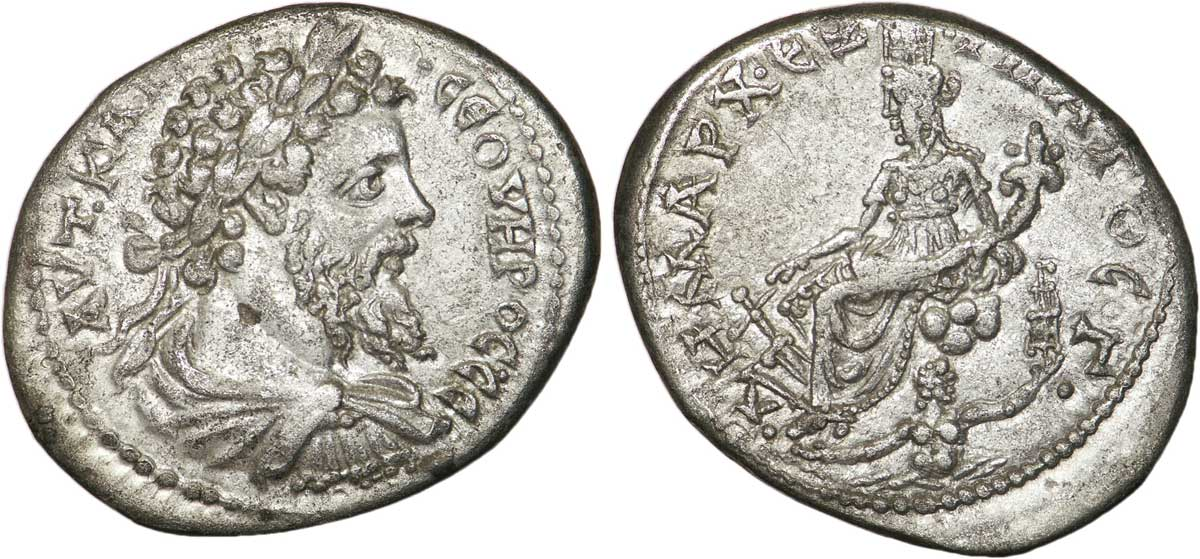 Monnaie frappée en la cité de Laodicée